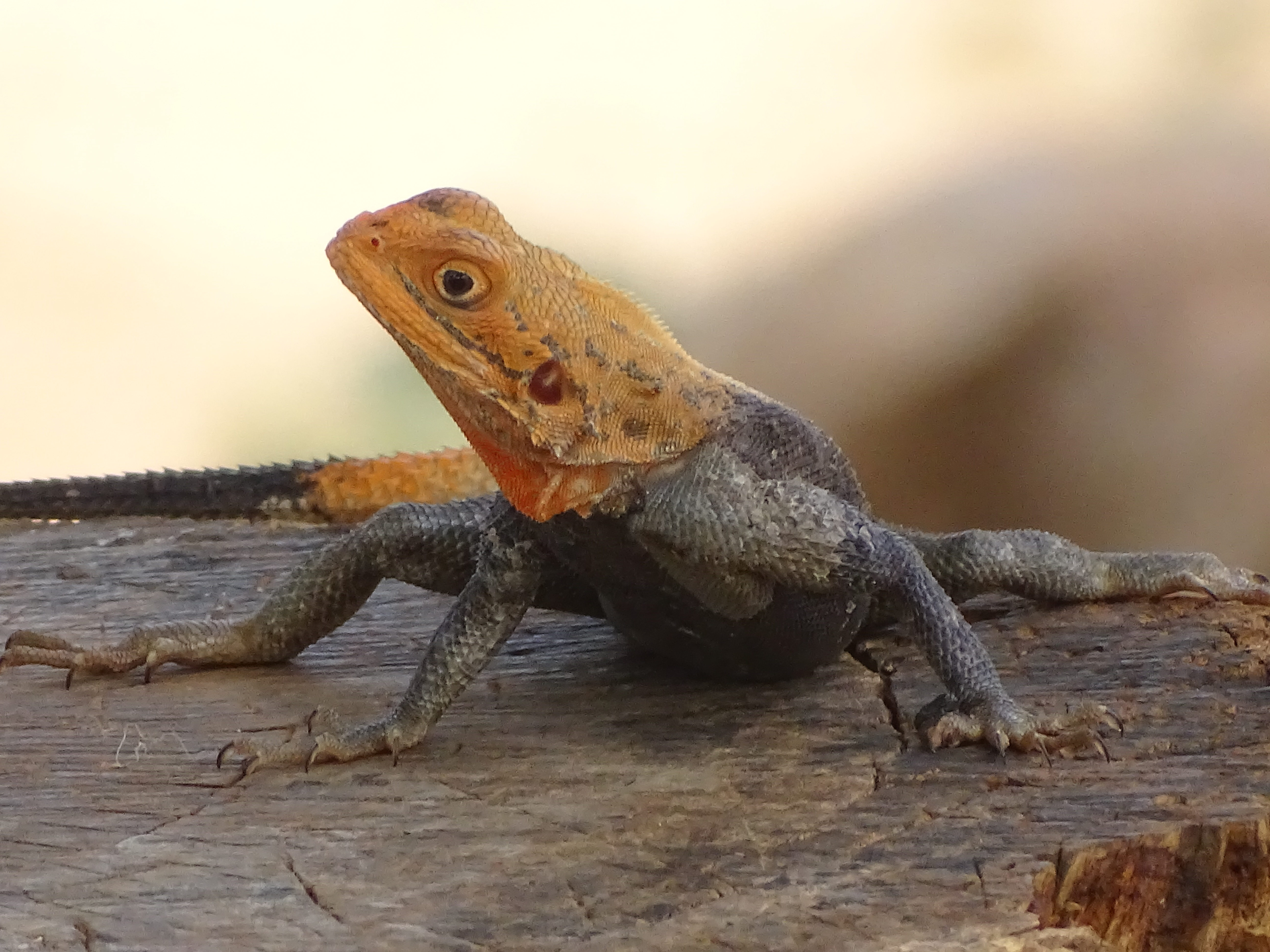 Agama agama lives in all sub-Saharan to tropical regions. This lizard has known how to adapt to human activity by settling near humans. Groups of dozens of people "squat" the houses. They climb along the walls, climb on the roofs and take advantage of the many shelters as well as the insects present.